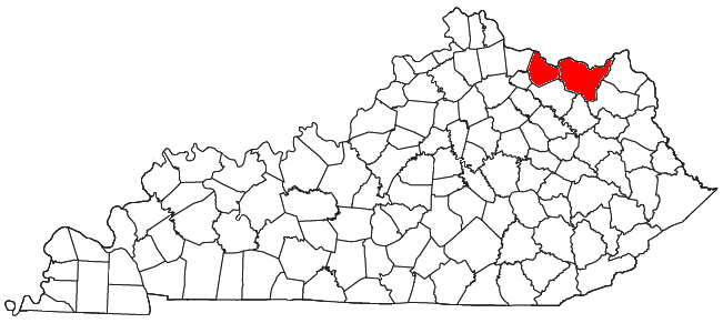 Locator map of the Maysville Micropolitan Statistical Area in the northerneast part of the U.S. state of Kentucky.